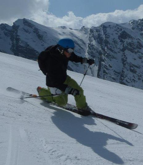 telemark